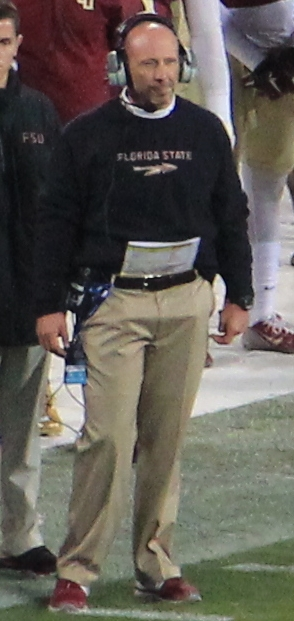 Charles Kelly in 2014